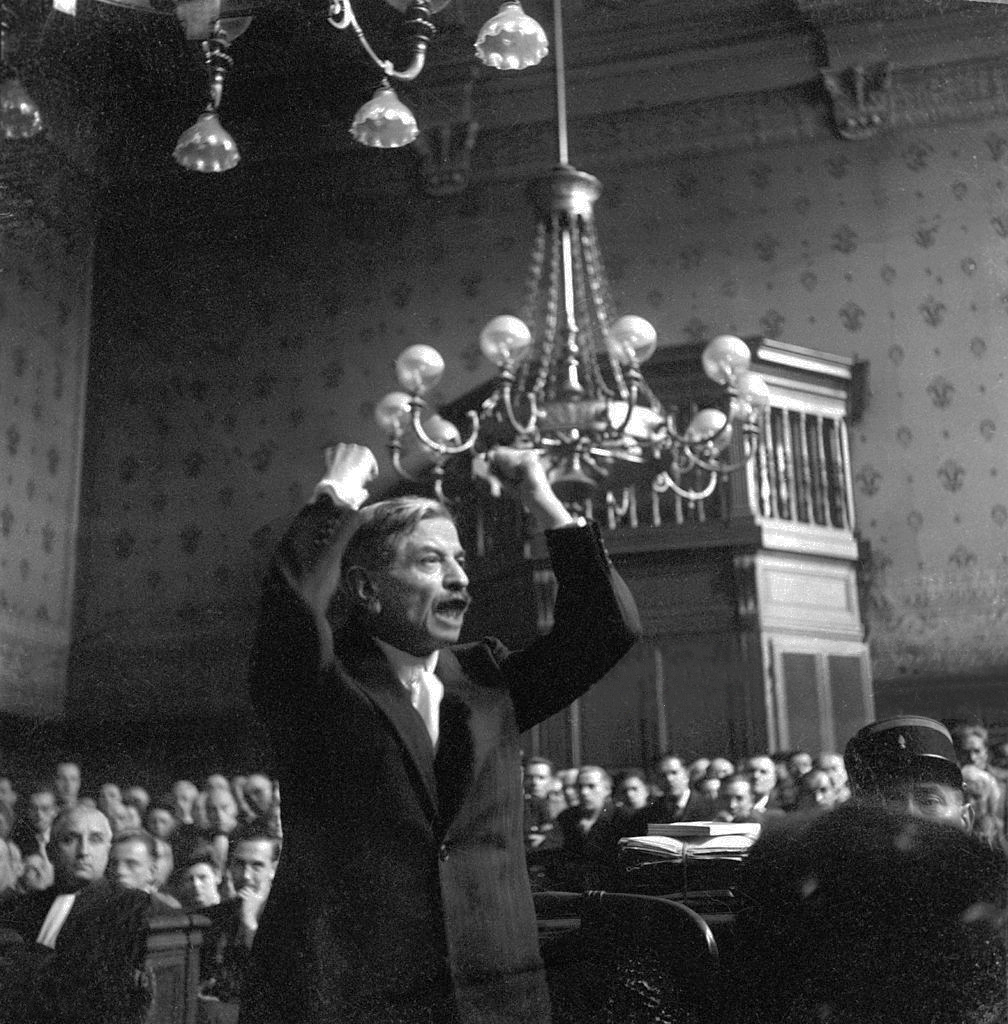 The former head of the Vichy government, Pierre Laval is passionately pleading his case.